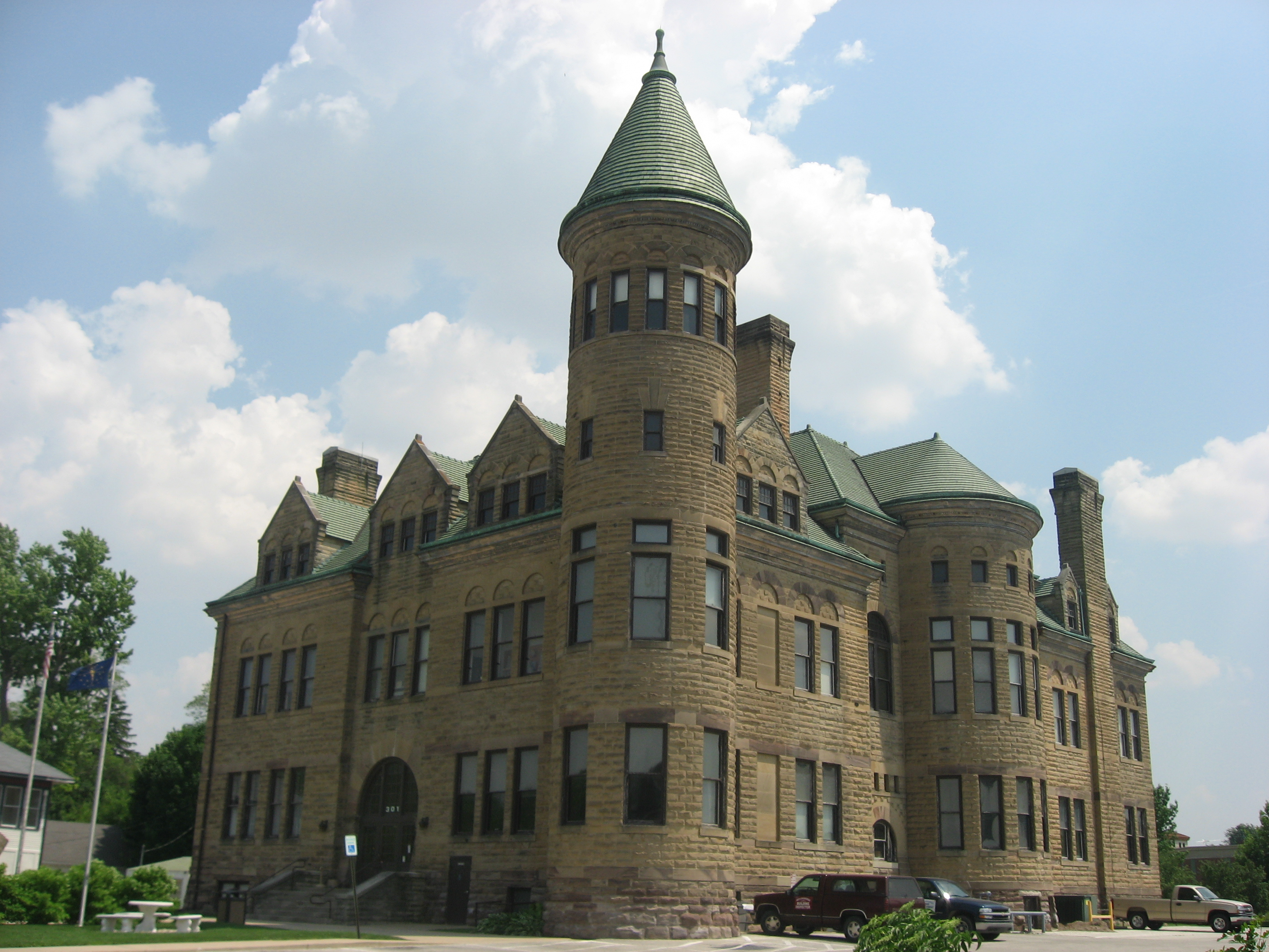 Front and western side of the Old Frankfort Stone High School (now City Hall), located at 301 E. Clinton Street in Frankfort, Indiana, United States. Built in 1892, it is listed on the National Register of Historic Places.